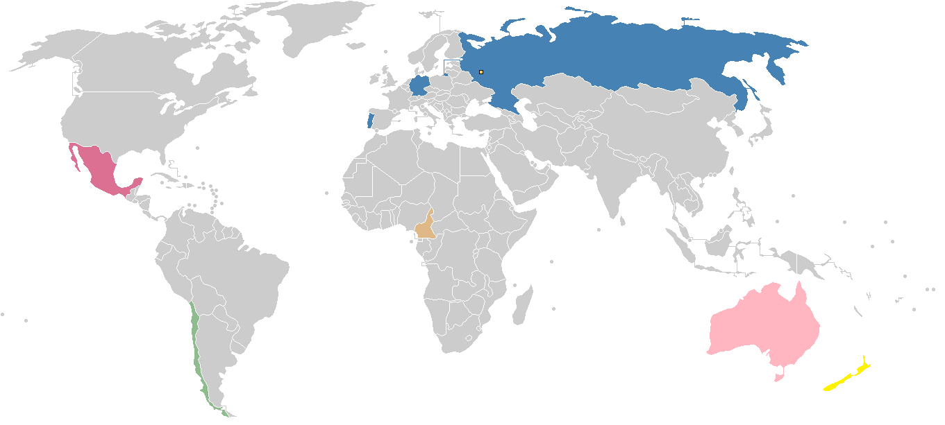 Status of countries with respect to 2017 FIFA Confederations Cup